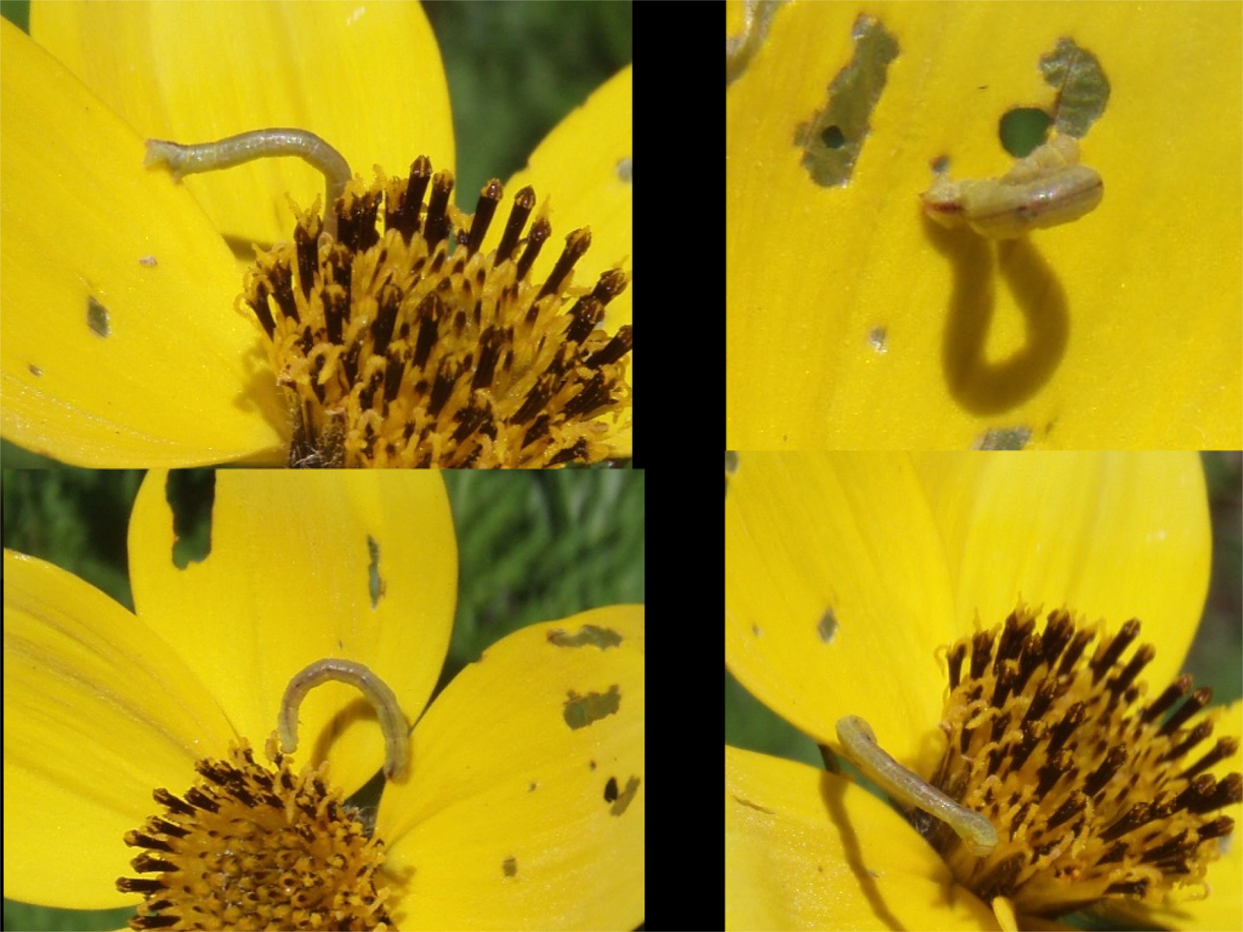 4 pictures combined to show locomotion of the geometrid caterpillar